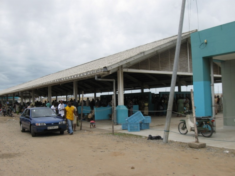 Fish market at the Port of Cotonou